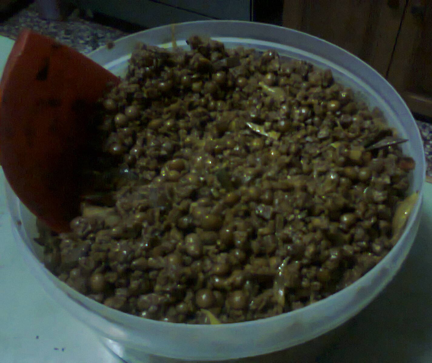 plastic bowl full of echicha